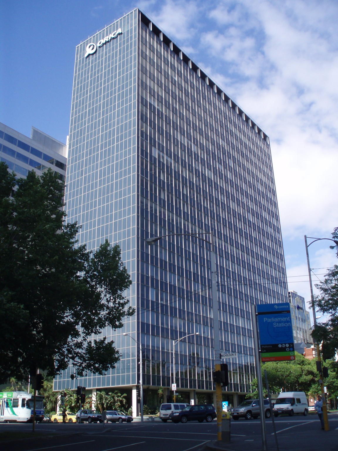 Orica House, Melbourne. Photo taken on 24 December 2007